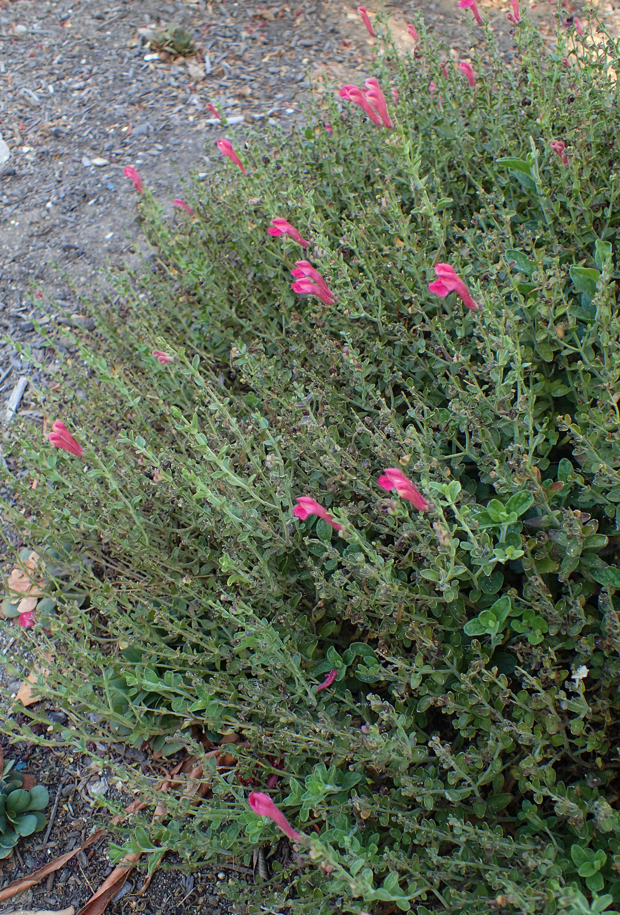 Scutellaria suffrutescens in Clovis Botanical Garden